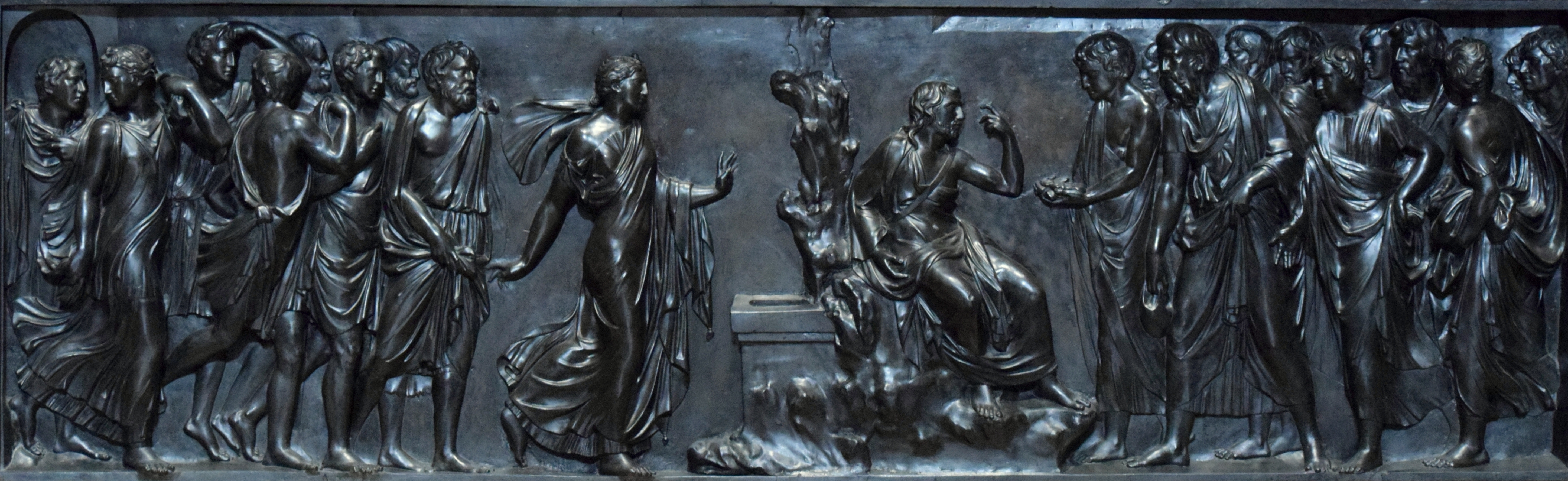 Christ and the Samaritan Woman, bronze relief panel by Lorenzetto in the Chigi Chapel, Santa Maria del Popolo.